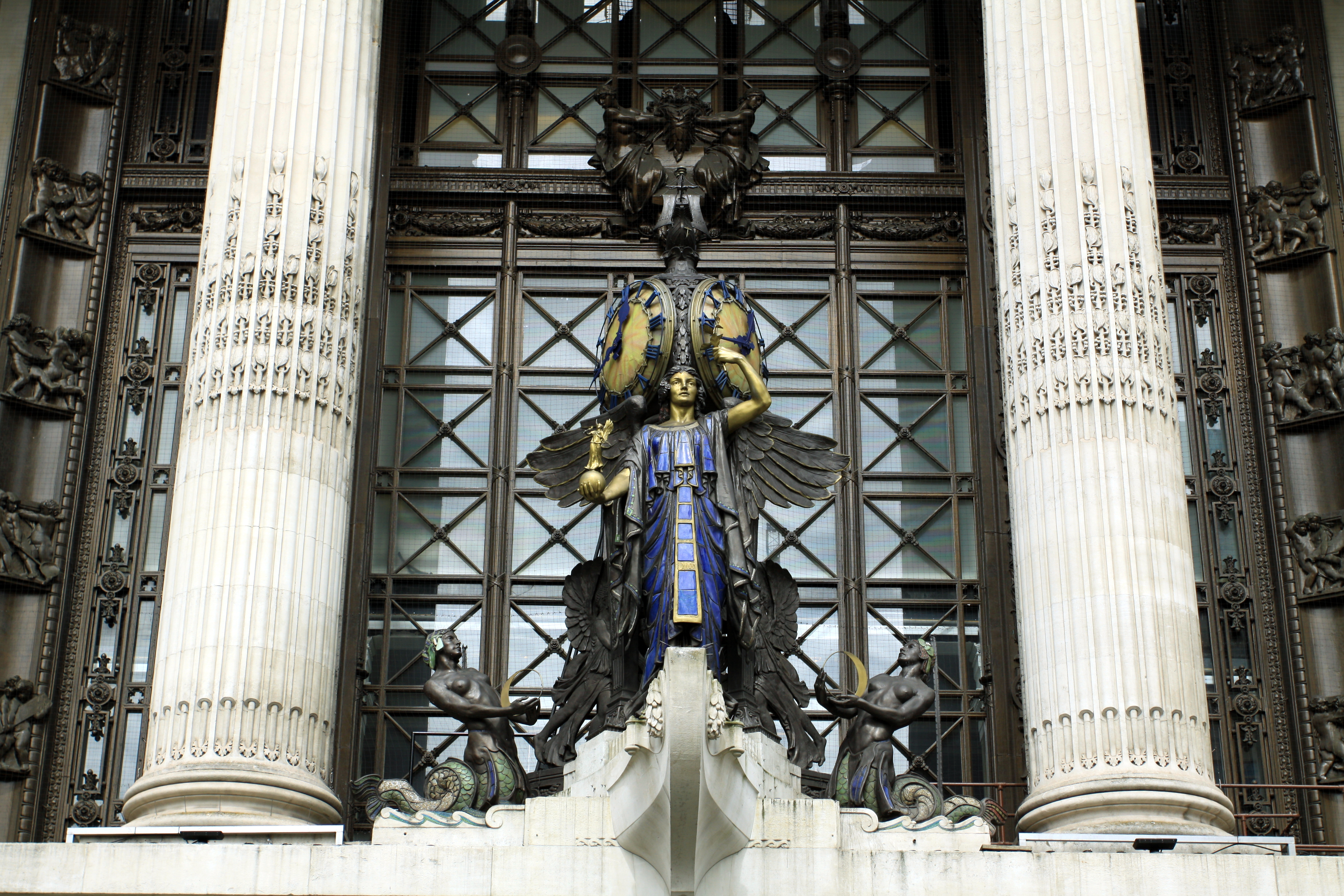 Detail of sculpture above the entrance of Selfridges on the Oxford Street in the City of Westminster, London, Great Britain. The making of this file was supported by Wikimedia UK.